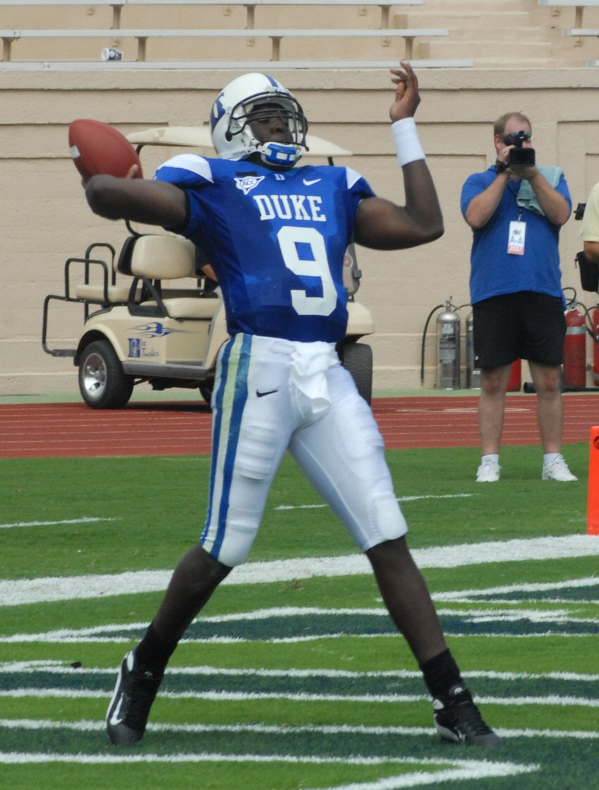 Quarterback Thaddeus Lewis attempts a pass from the endzone in the first half of Duke Blue Devil's season opener against the Conneticut Huskies Sept. 1 at Wallace Wade Stadium, Durham, N.C. The Duke Athletic Department hosted the Military Appreciation Game to start off the college football season. (U.S. Air Force photo/Staff Sgt. Jon LaDue)